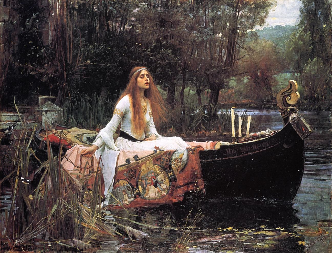 The Lady of Shalott